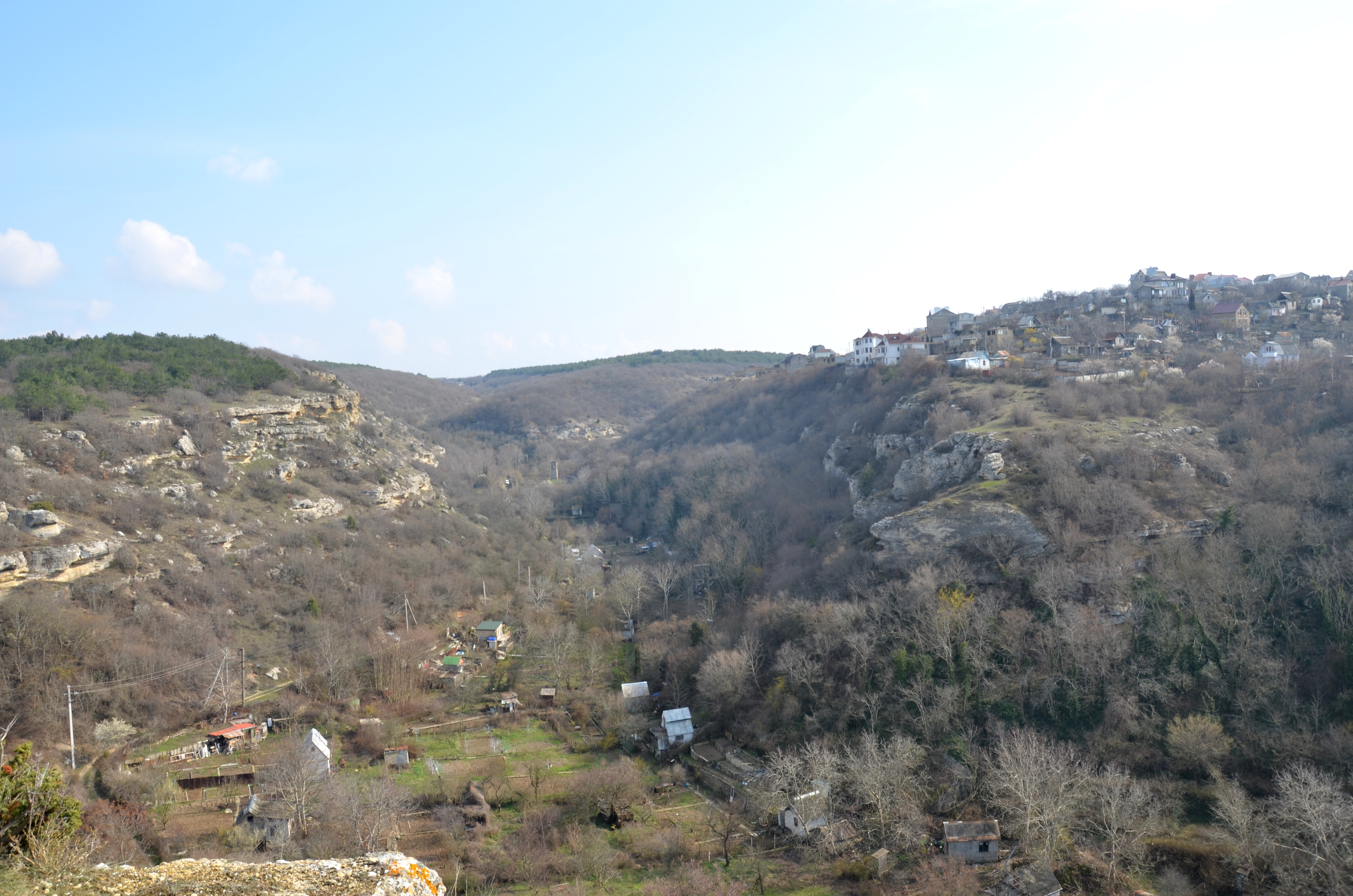 Mikrukov Gully